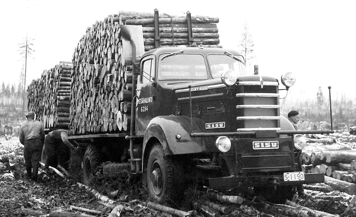 Jyry-Sisu K-44ST 4×4+2 hauling logs with a trailer in terrain.